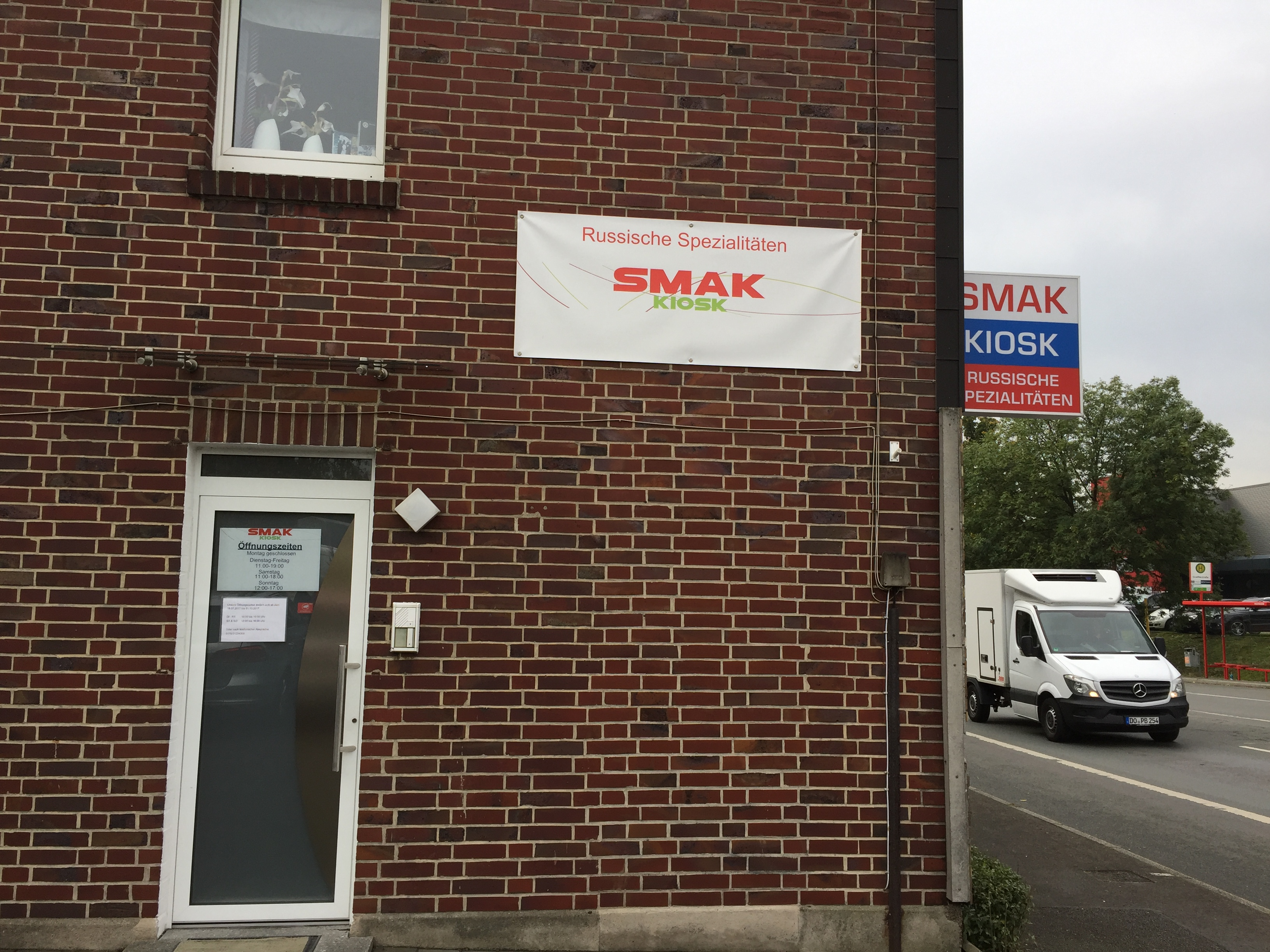 Smak - Russian vending kiosk in Waltrop, North Rhine-Westphalia, Germany